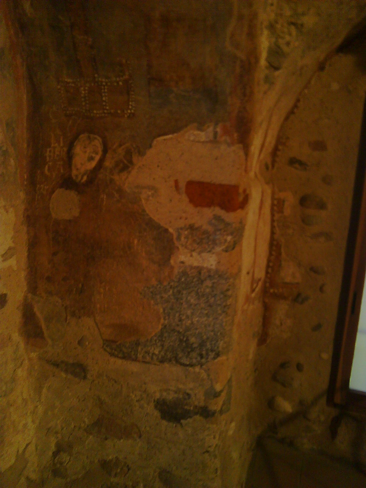 Tower of Torba, Gornate olona (Va) (Italy)